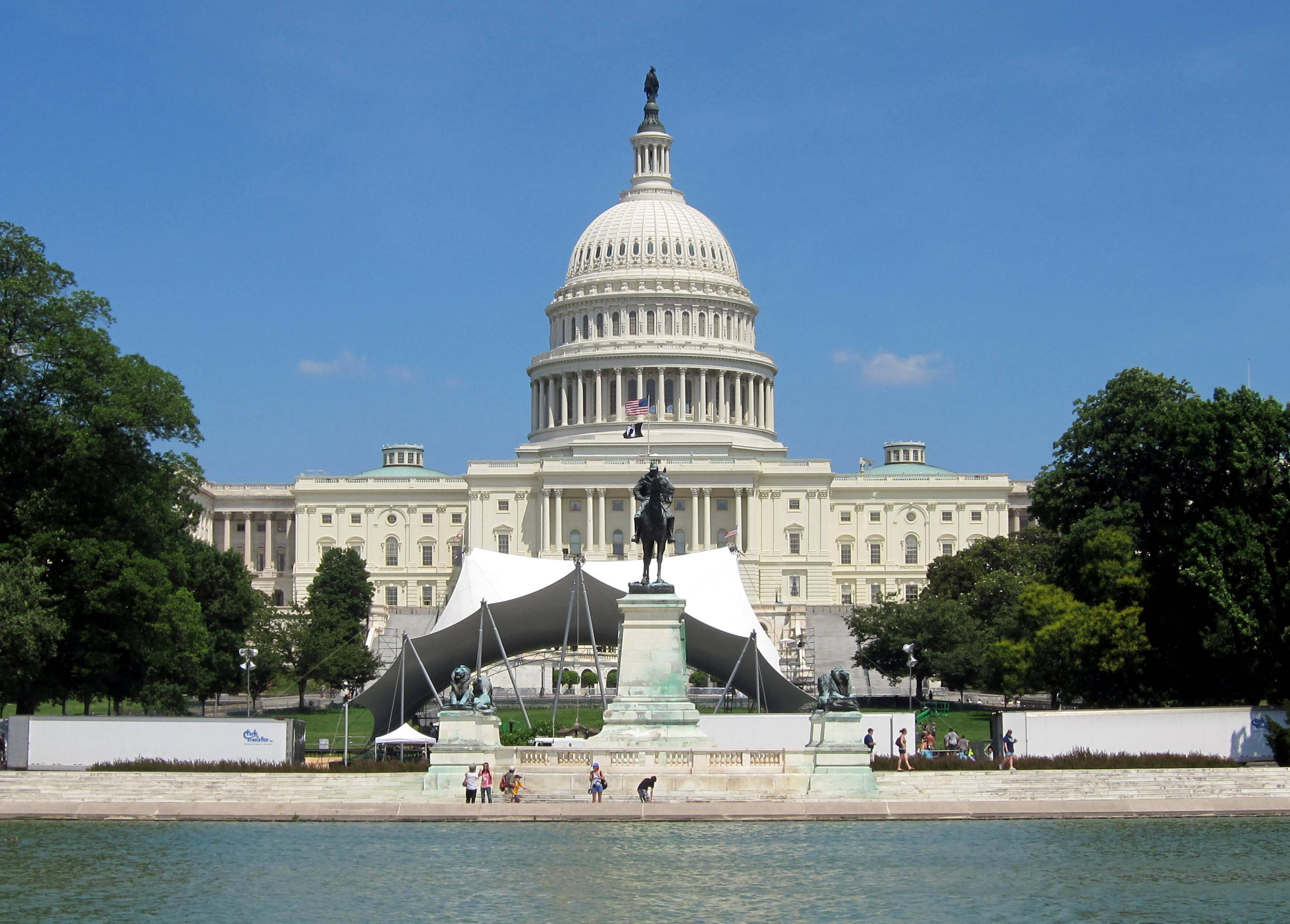 The United States Capitol in Washington, D.C. The Ulysses S. Grant Memorial and Capitol Reflecting Pool are in the foreground.